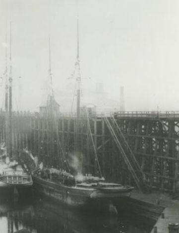 The schooner Speedwell prior to her sinking